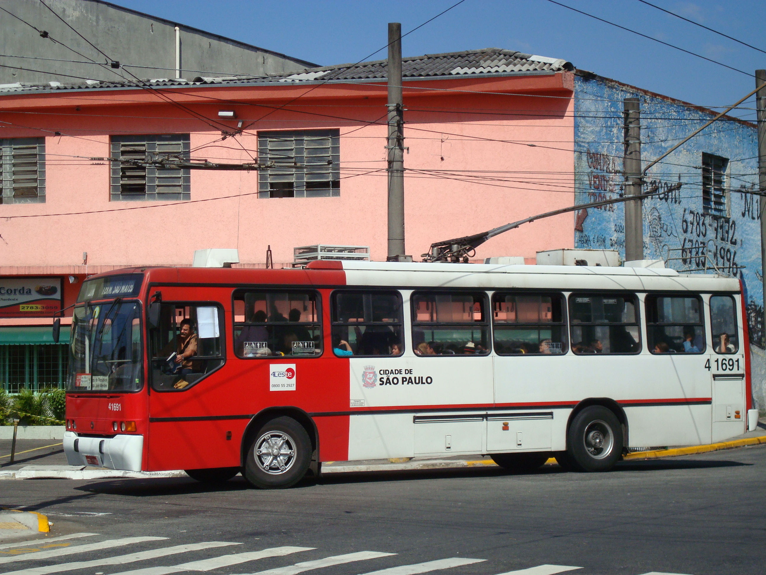 São Paulo's Trolleybus 4 1691 (Marcopolo Torino GV/Scania/Tectronic IGBT) at the Vila Carrão Bus Station.